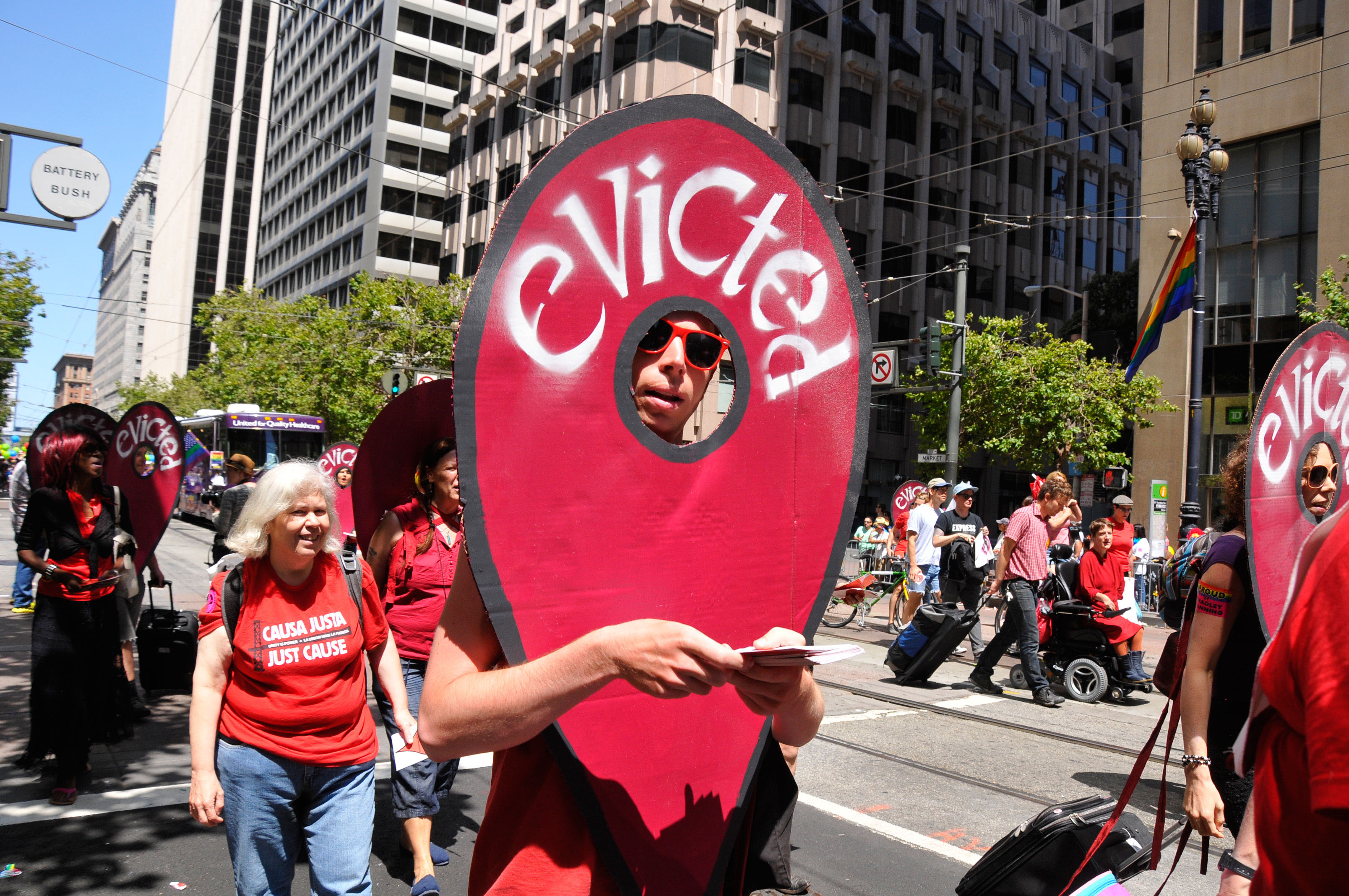 demonstration against gentrification & eviction during SF Pride 2013, using Google Maps pin costumes